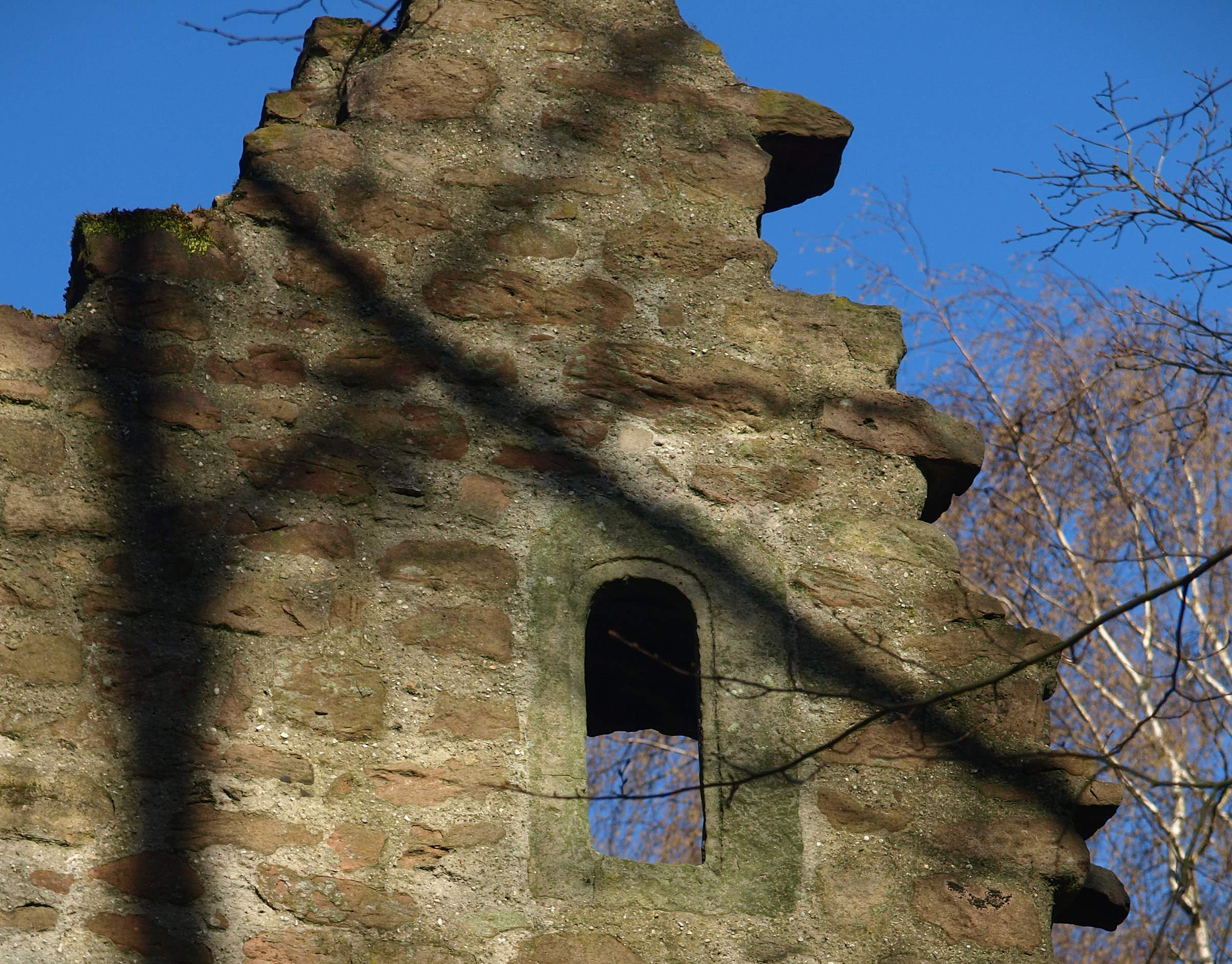 monolith window attached in the medieval church